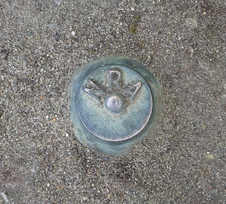 NRA rivet bench mark denoting a datum from which to assess river/flood levels